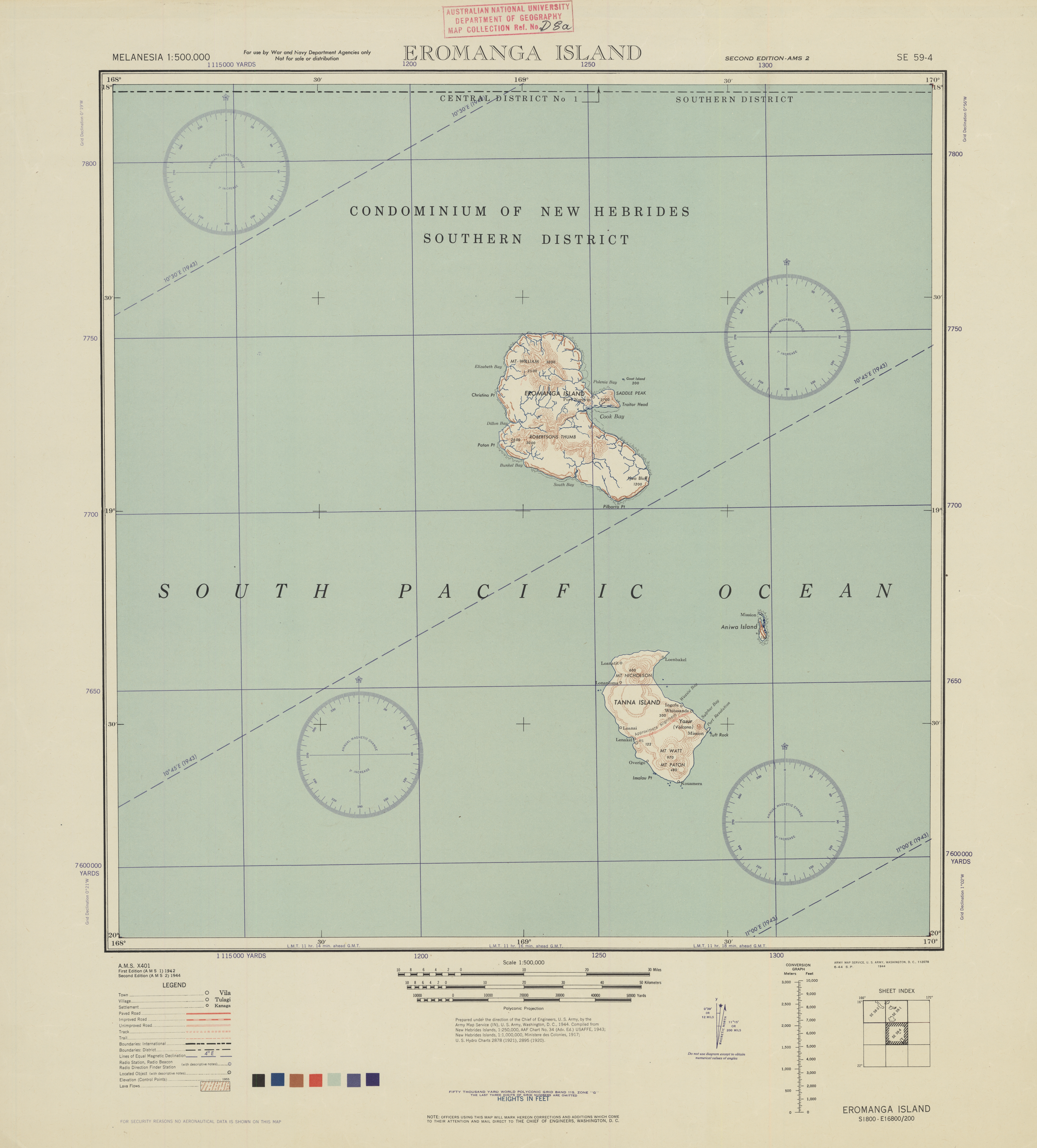 Topographic Map Sheet 1:500,000 "Eromanga" showing the islands of Erromango, Aniwa, and Tanna of the New Hebrides (since 1980 independent Vanuatu)